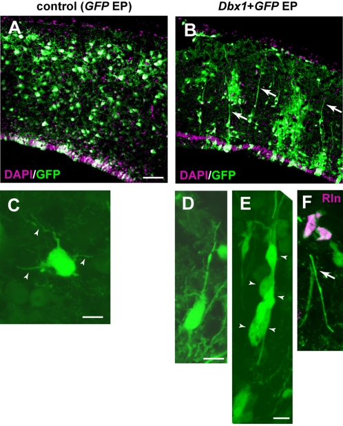 Increase of Reelin-positive cells changes morphology of migrating neurons A) + B): Changes in radial fiber projection patterns in E10 telencephali by Dbx1 misexpression. Compared with control (A), straight projection of radial fibers is evident in the Dbx1-misexpressed pallium (arrows in B). C) to E): Morphological changes in migrating neurons by Dbx1-misexpression. In control, GFP-labeled migrating neurons extend many short processes (arrowheads in C). In contrast, In Dbx1-misexpressed pallium, migrating neurons display a bipolar shape (D), and attached to the radial fibers (arrowheads in E). Each radial fiber extends to the Reelin-positive cells localized at the pial surface (an arrow in F). Scale bars, 50 µm (B), 20 µm (D), 10 µm (F, G)